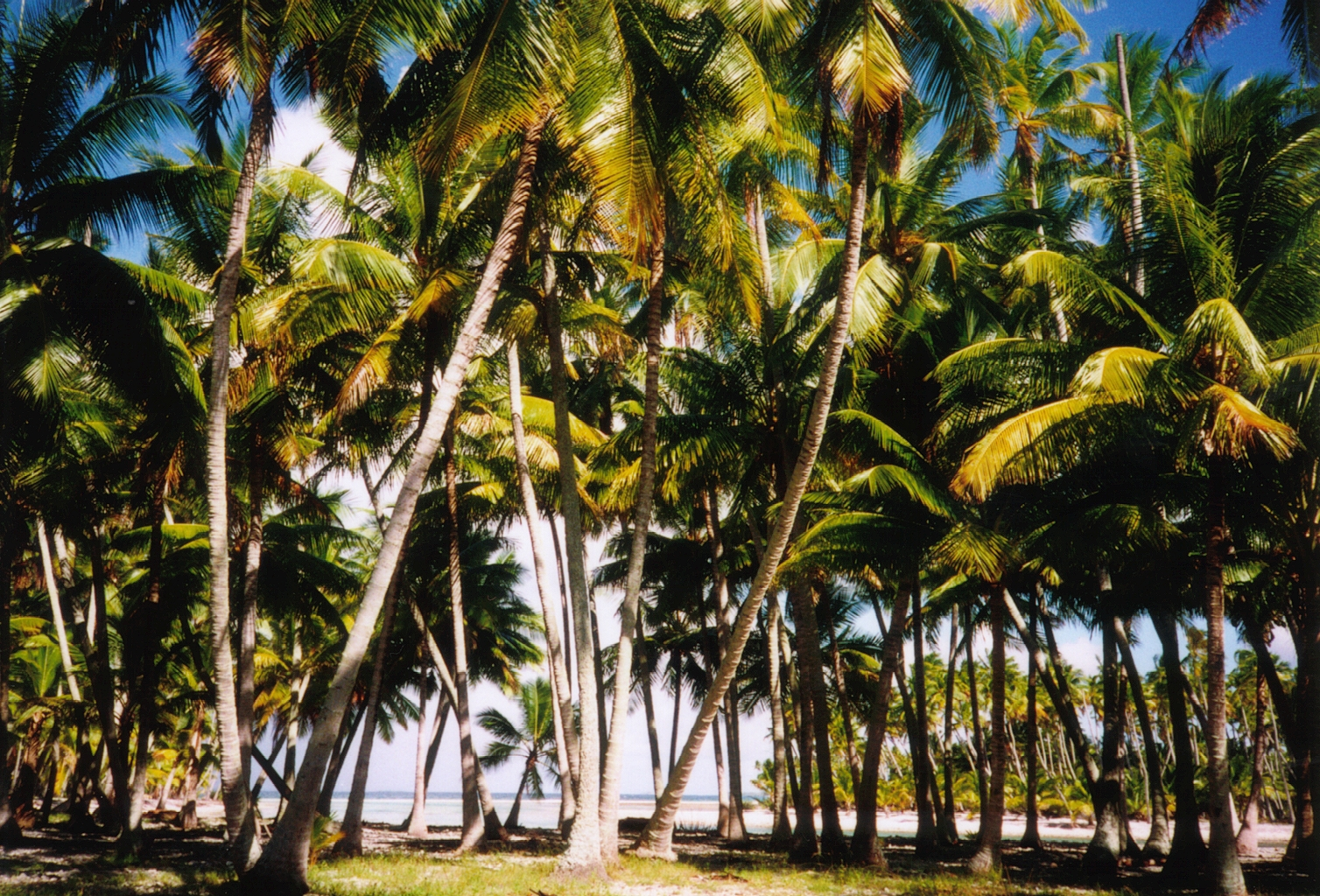 Palms on Puka Rua Atoll, Tuamotu Archipelago, French Polynesia